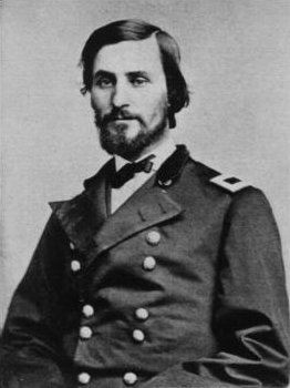 Union commander at Battle of Okolona